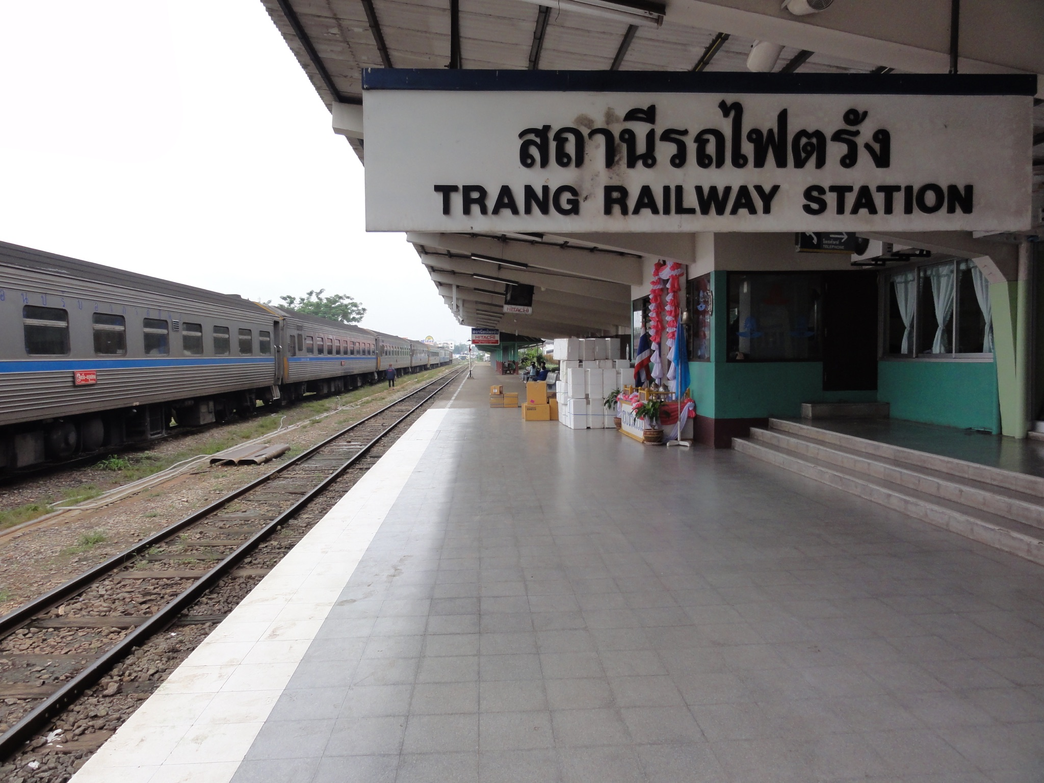 Trang Railway Station, stte railway of Thailand